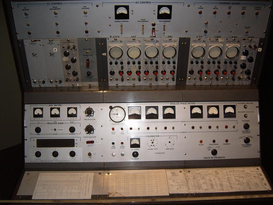 MiniTrack Interferometer System panel that was located at Orroral Valley Spacecraft Tracking and Data Acquisition Network (STADAN), now at the National Museum of Australia.